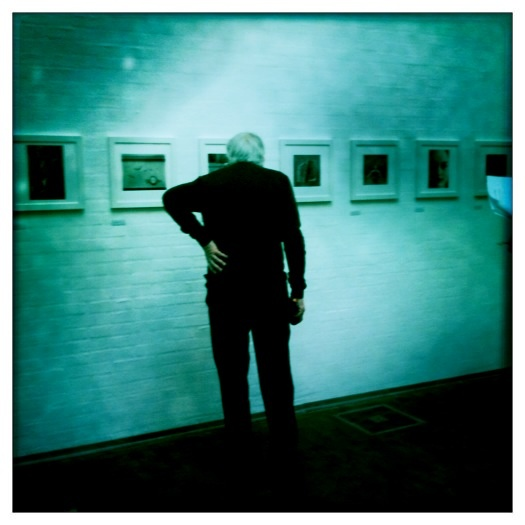 Gunnar Smoliansky watches his pictures